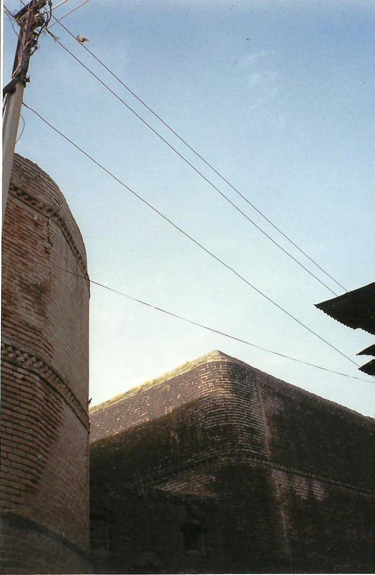 Suryawanshi Wada, Medieval house of Local Rulers of the area.